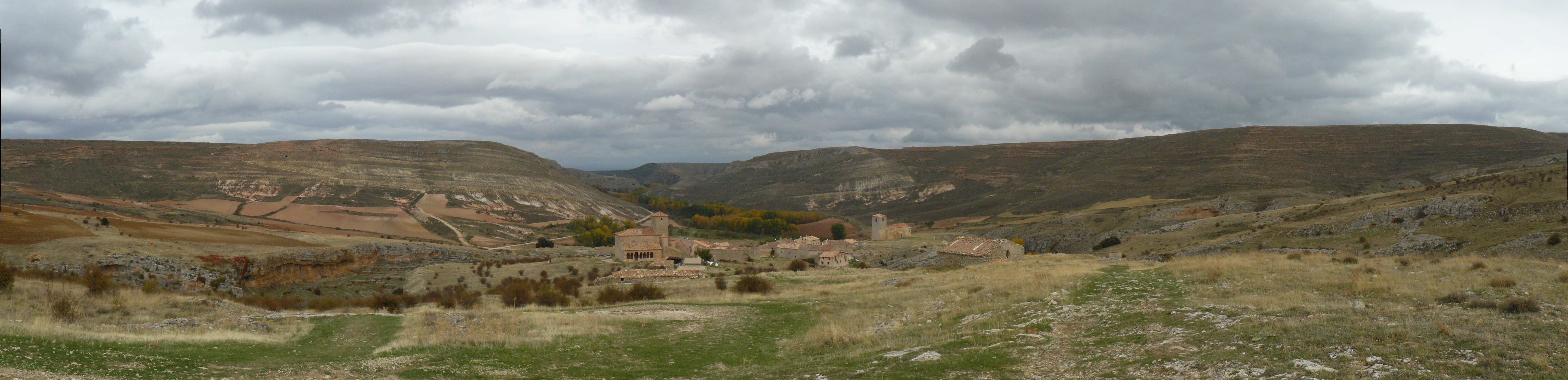 General view of Caracena (Soria, Spain) as seen from the Southwest, on the way to the castle.